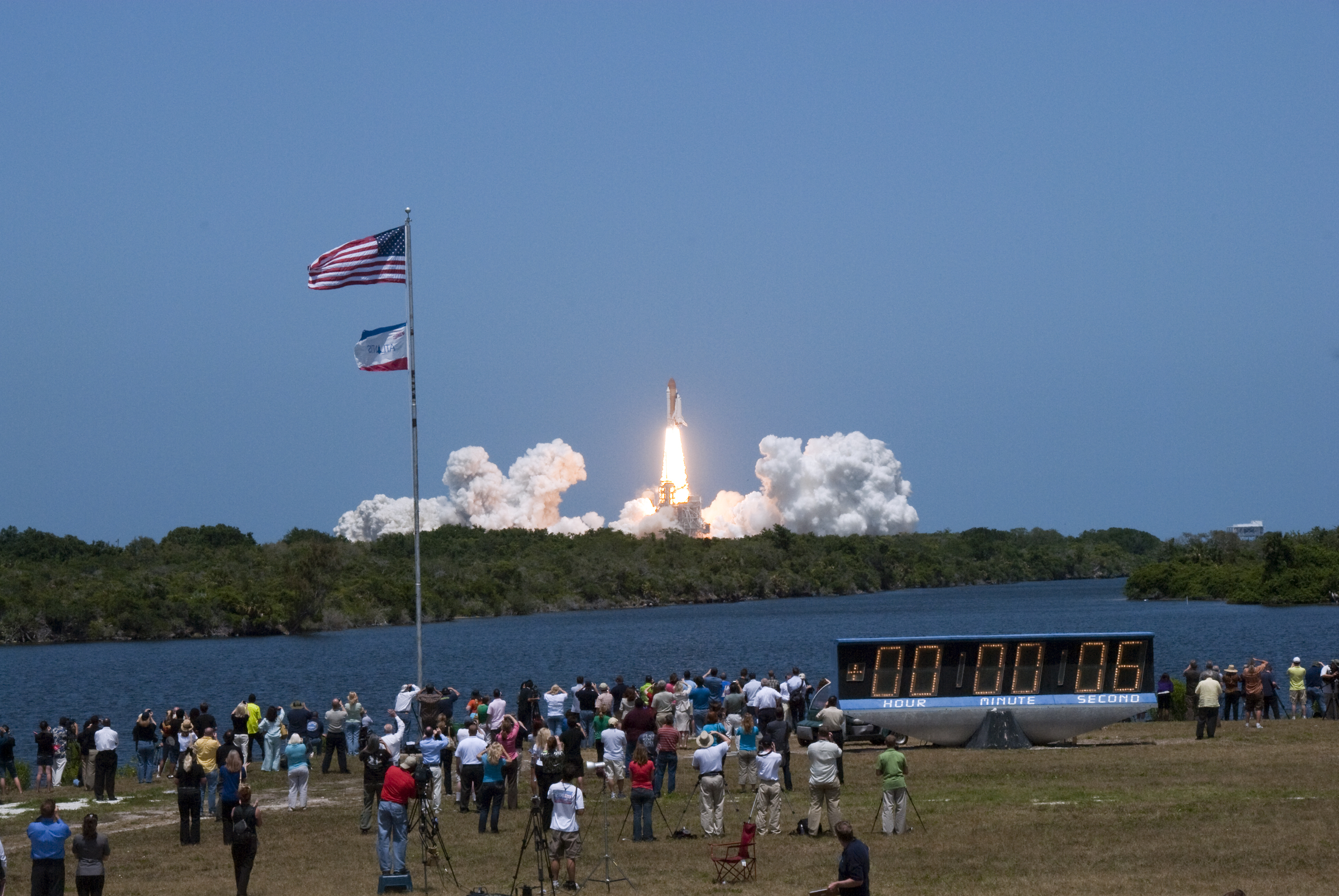 Space shuttle Atlantis' liftoff from Launch Pad 39A at NASA's Kennedy Space Center in Florida is witnessed by news media representatives and STS-132 Tweetup participants on hand by the countdown clock at the Press Site. Launch of the STS-132 mission was at 2:20 p.m. EDT on May 14. The six-member crew will deliver the Russian-built Mini Research Module-1 to the International Space Station. Named Rassvet, Russian for "dawn," the module is the second in a series of new pressurized components for Russia and will be permanently attached to the Earth-facing port of the Zarya control module. Rassvet will be used for cargo storage and will provide an additional docking port to the station. Also aboard Atlantis is an Integrated Cargo Carrier, or ICC, an unpressurized flat bed pallet and keel yoke assembly used to support the transfer of exterior cargo from the shuttle to the station. STS-132 is the 34th mission to the station and the last scheduled flight for Atlantis.